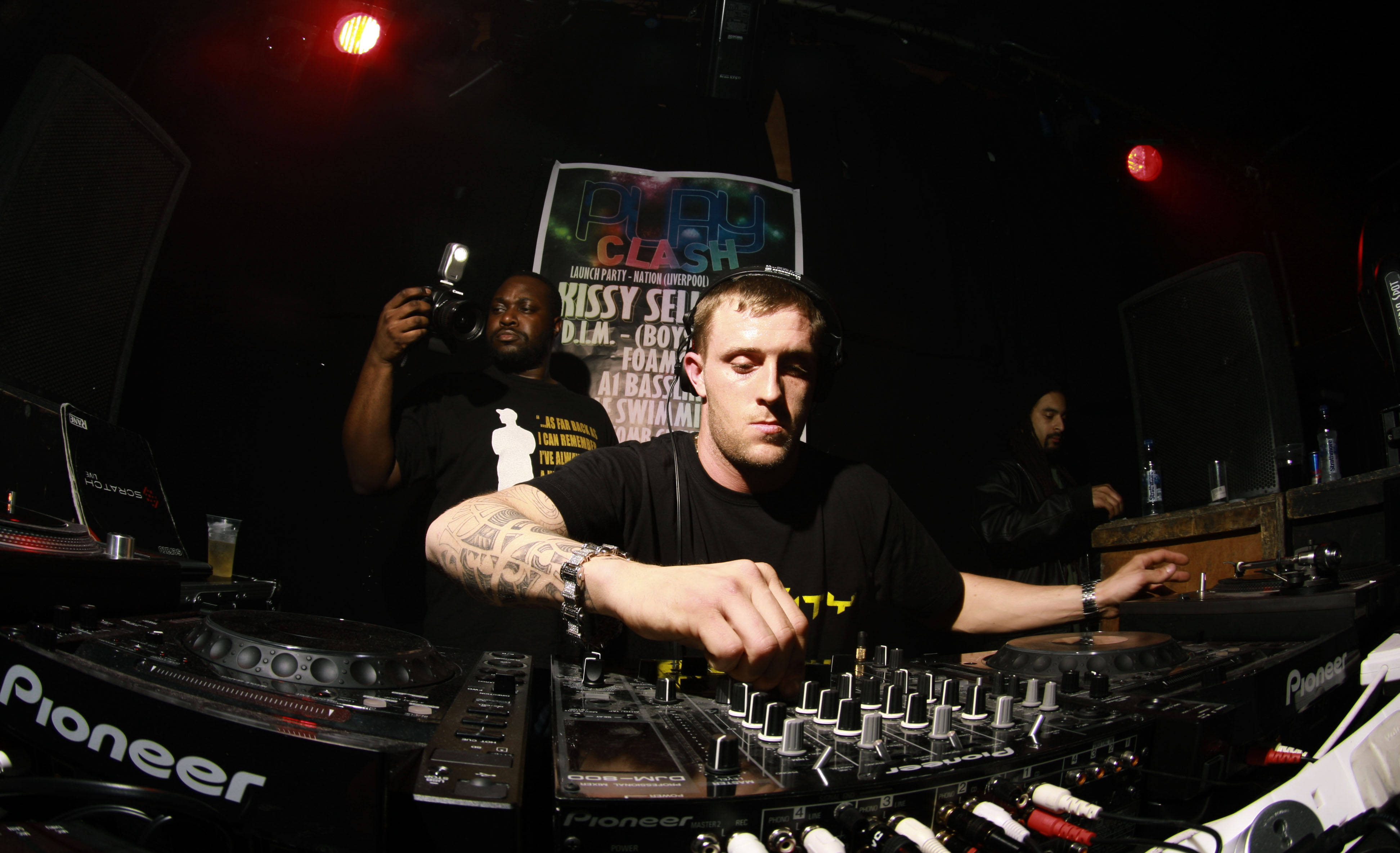 Iration Steppas, Mala, Hatcha, Netsky, Bachelors of Science, Exodus & Tenmen